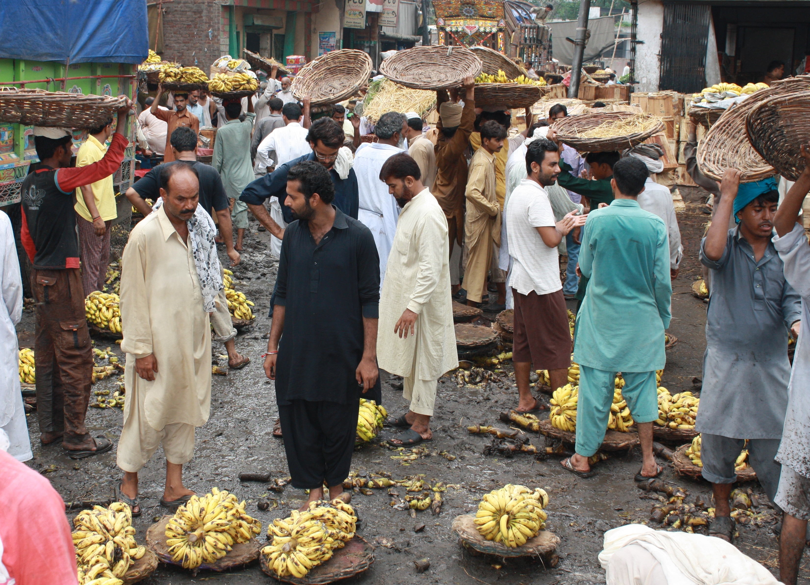 USAID Firms Project's Agriculture Marketing Reforms: Traders and commission agents participate in the fruit action at the start of a busy day at the wholesale fruit mandi as soon as the trucks unload the fresh produce from the farms. Retailers can be seen displaying their fresh fruits for the encroachers who are busy negotiating rates. Amazon SEO